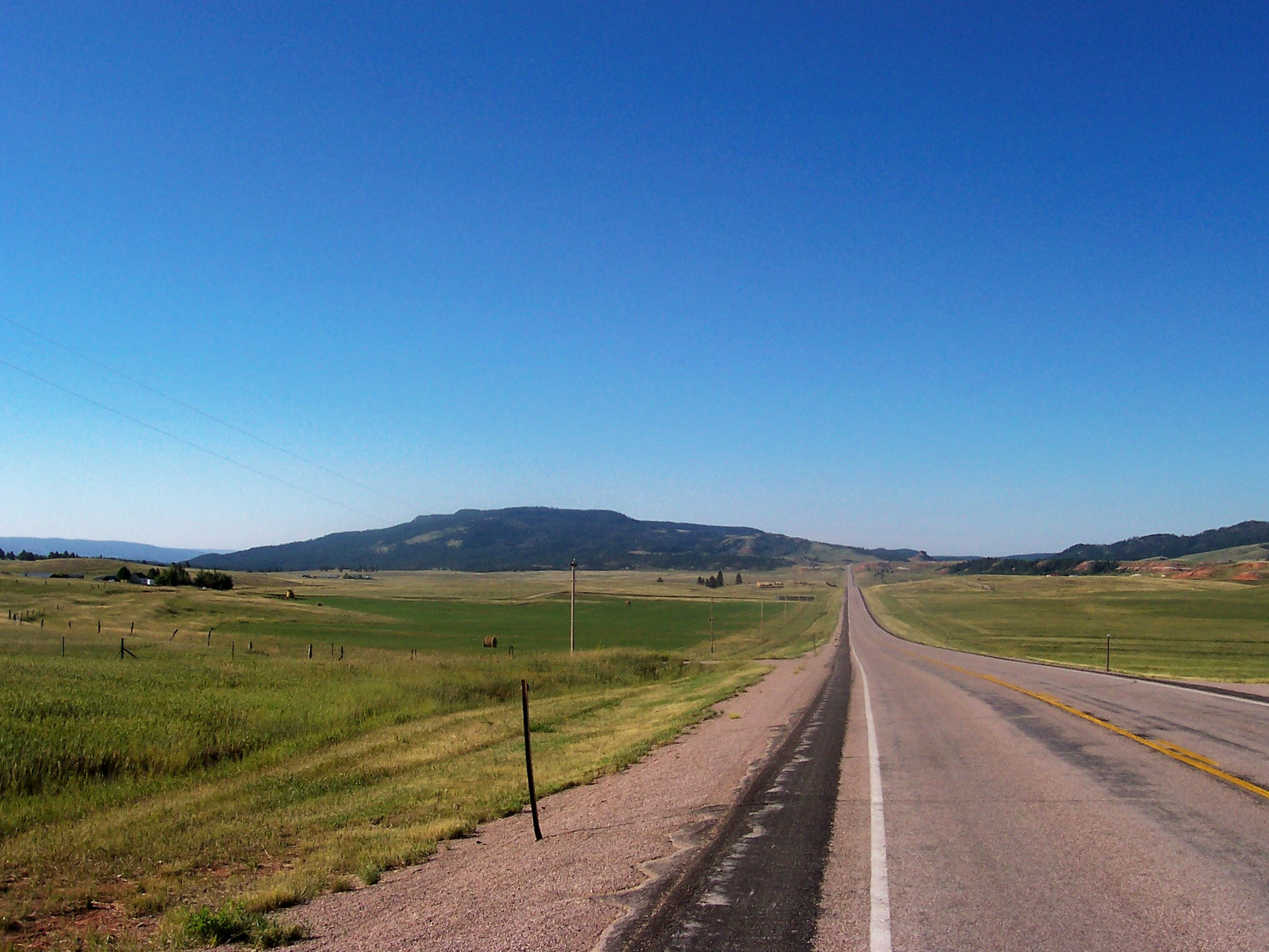 This image was taken by my grandfather, who forfeits all rights.